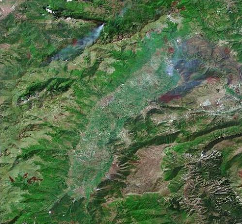 Polog Valley (Pološka Kotlina), as seen from the Terra Satellite.